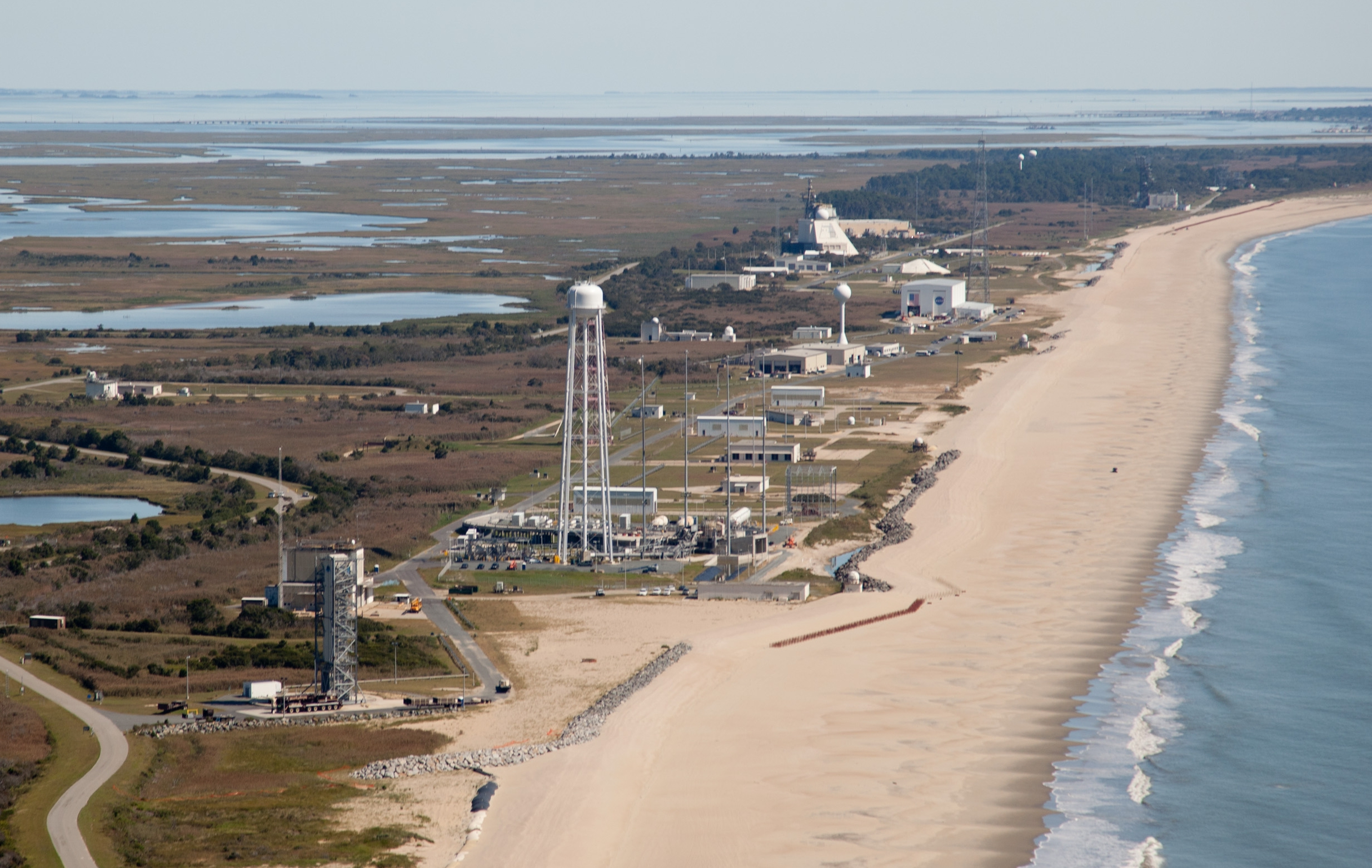 The Wallops Island Atlantic coast showing both the Mid-Atlantic Regional Spaceport (MARS)--State of Virginia--in the foreground and the Wallops Flight Facility--US Federal government, NASA--in the background. Documents the newly restored and widened beachfront in anticipation of increased launch traffic at MARS after 2012. Launch pad 0A, used by Antares, is second from the near end, next to the tall water tower. Note: The land on which MARS sits was formerly, prior to 2003, a part of the WFF.